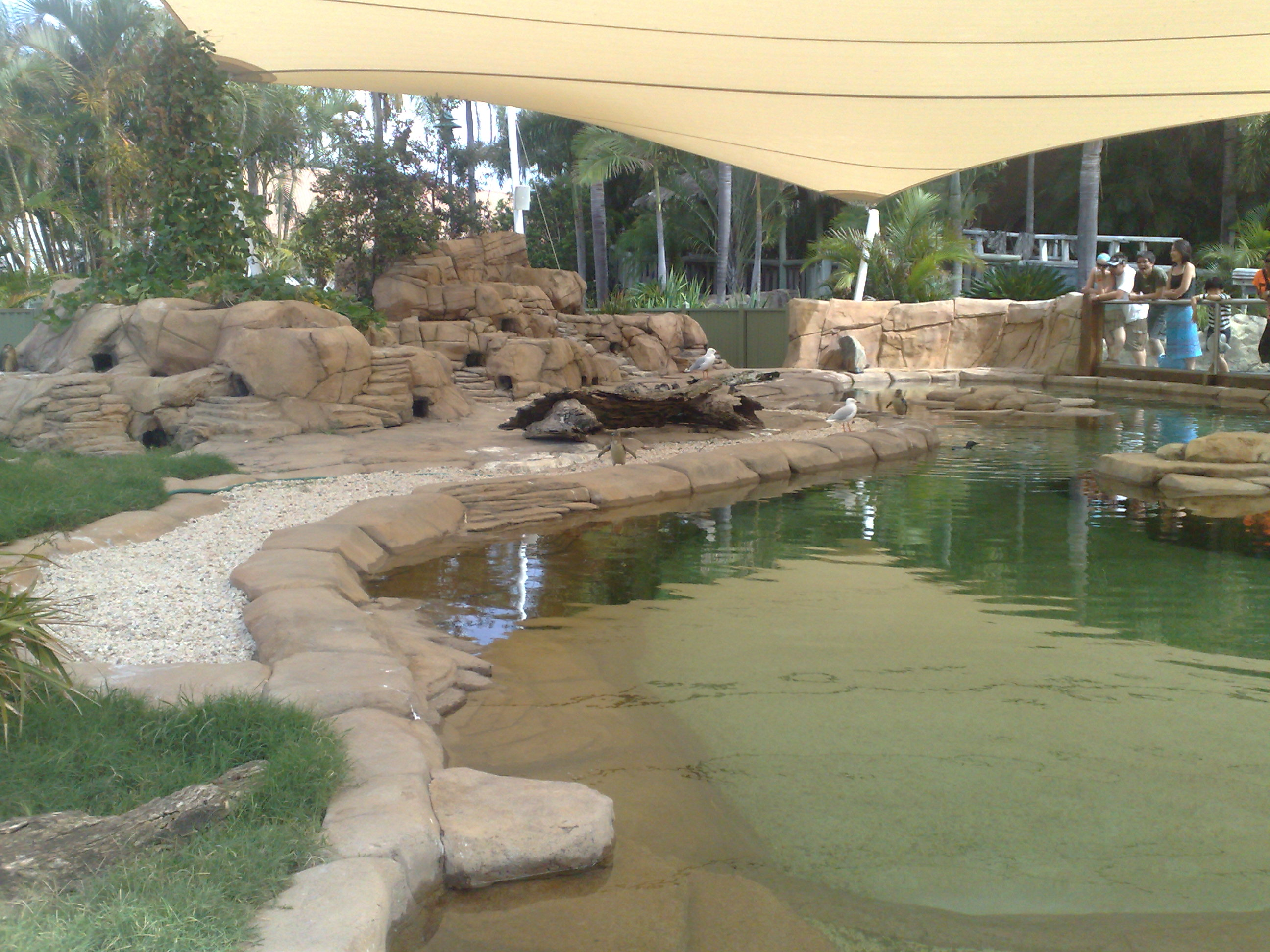 Penguin enclosure at Seaworld, Gold Coast